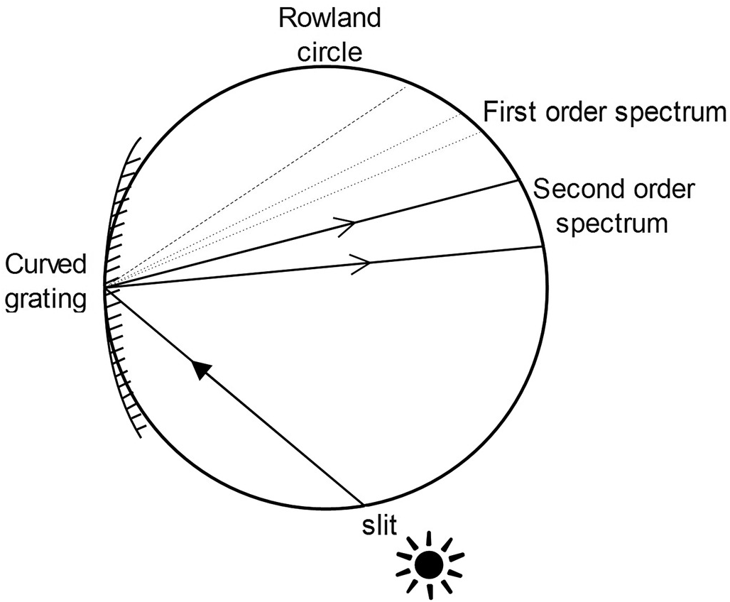 A Rowlandcircle with the positions for two orders of reflected electromagnetic radiation